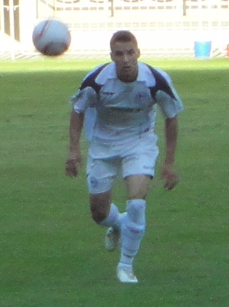 Bahattin Köse, turkish-german football player, in 2011 in the dress of Arminia Bielefeld.